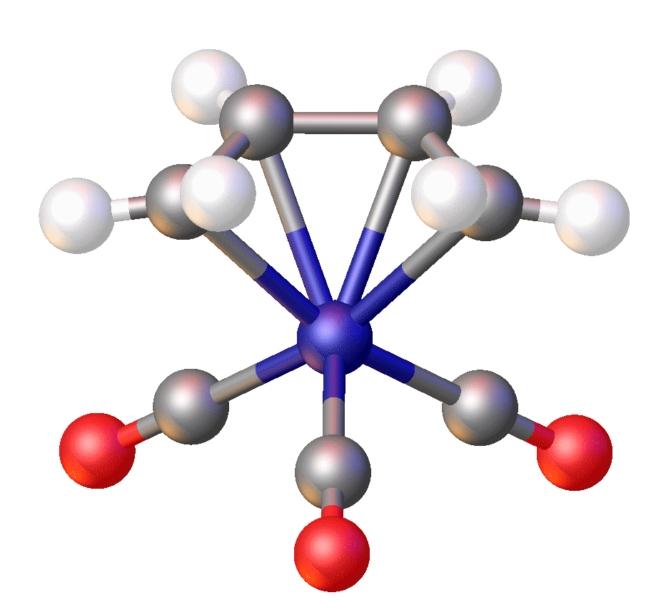 Fe(butadiene)(CO)3 from Xray